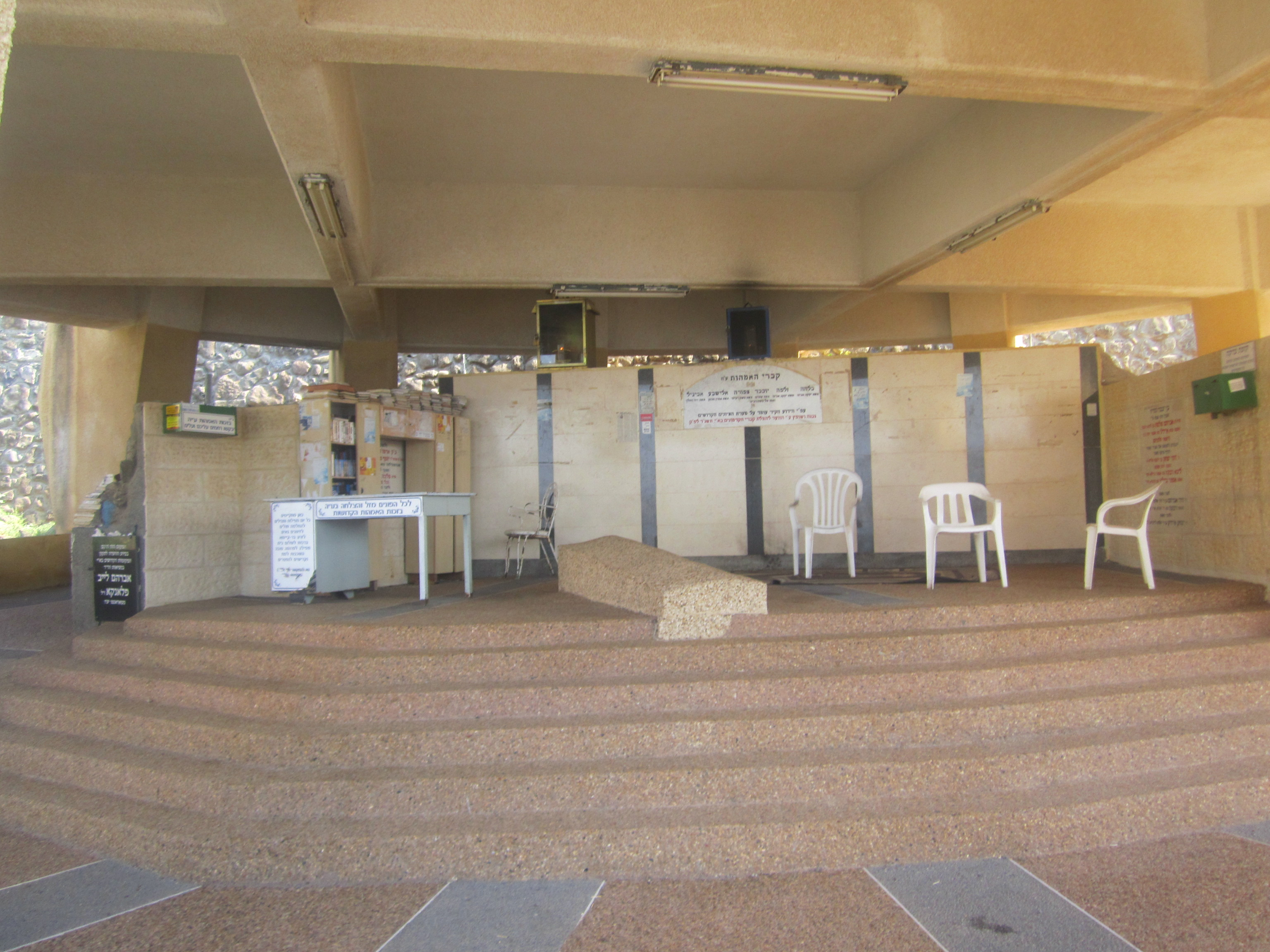 Matriarch graves in Tiberias קברי האמהות בטבריה